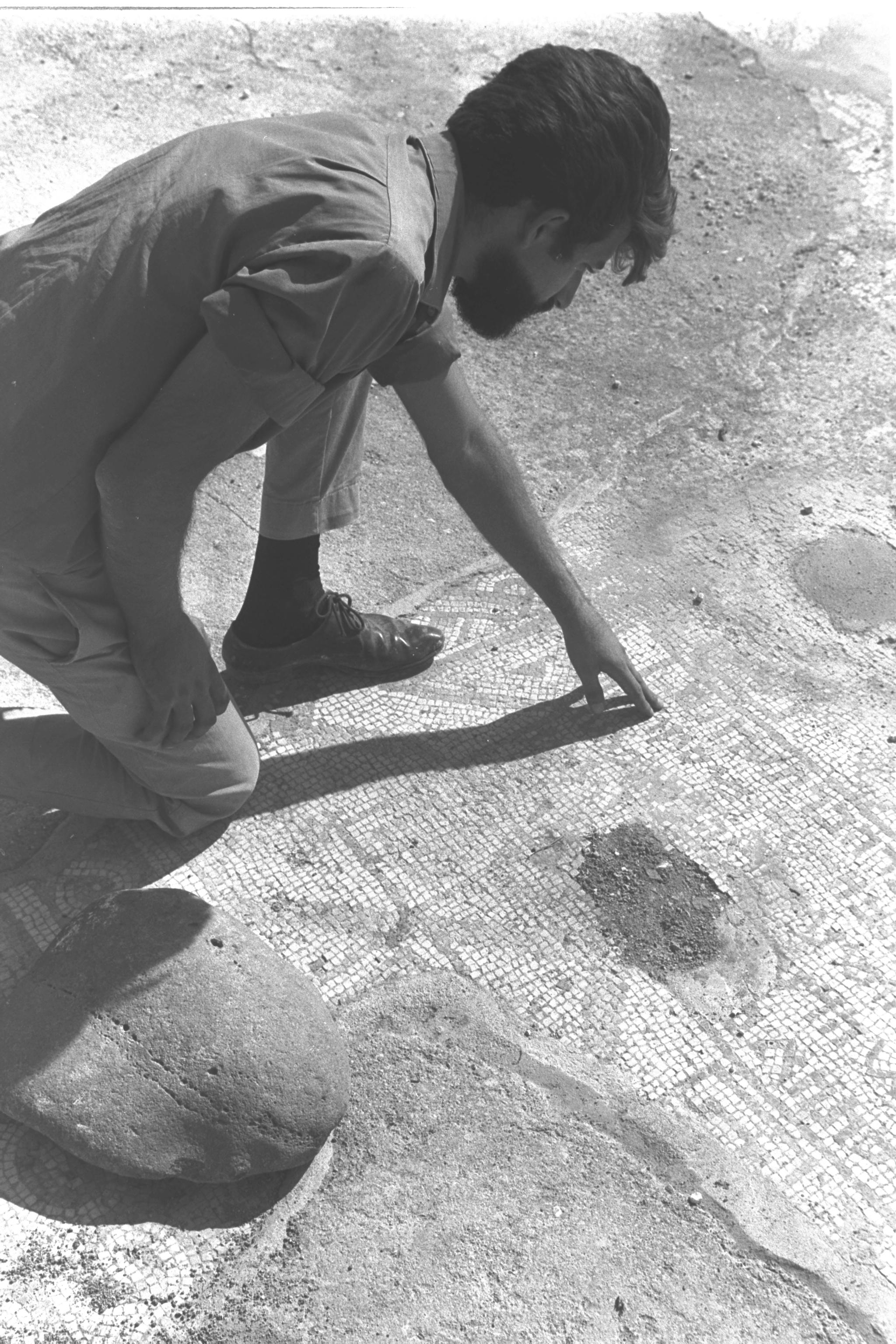 A mosaic with a Hebrew inscription from the 5th century in Hamat Gader. פסיפס מן המאה ה-5 עם כיתוב בעברית בחמת גדר Photo: BRUNER ILAN, 11/10/1967